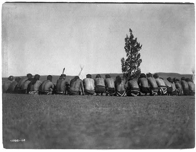 en[Arikara medicine fraternity--The prayer - Arikara shamans, without shirts, backs to camera, seated in a semi-circle around a sacred cedar tree, tipis in background fr [Fraternité Arikara medicine fraternity Les chamans Arikara sont en prière, torse-nu, dos à l'appareil photo, assis dans un demi-cercle autour d'un cèdre sacré. Des tipis sont visibles en arrière-plan (photos imprimées vers 1900-1910)